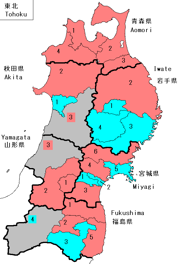 Presentation of the results of the Japan general election, 2003 in the single member districts of the Tohoku block, based on district boundary information in :ja:衆議院小選挙区一覧 and mapping tools provided by Japanese Wikipedia User Koba-chan. Color codes: LDP - red DPJ - light blue New Komeito - green SDP - purple New Conservative Party - dark blue Other/Independent - gray Some independent politicians joined major parties immediately after the election, and their districts are marked with a colored square around the number. This is also true for the members of the New Conservative Party, which was wholly subsumed into the LDP.